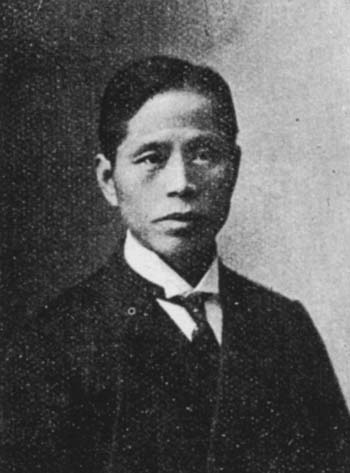 Mr. Tokuzō Nakajima, ethicist.